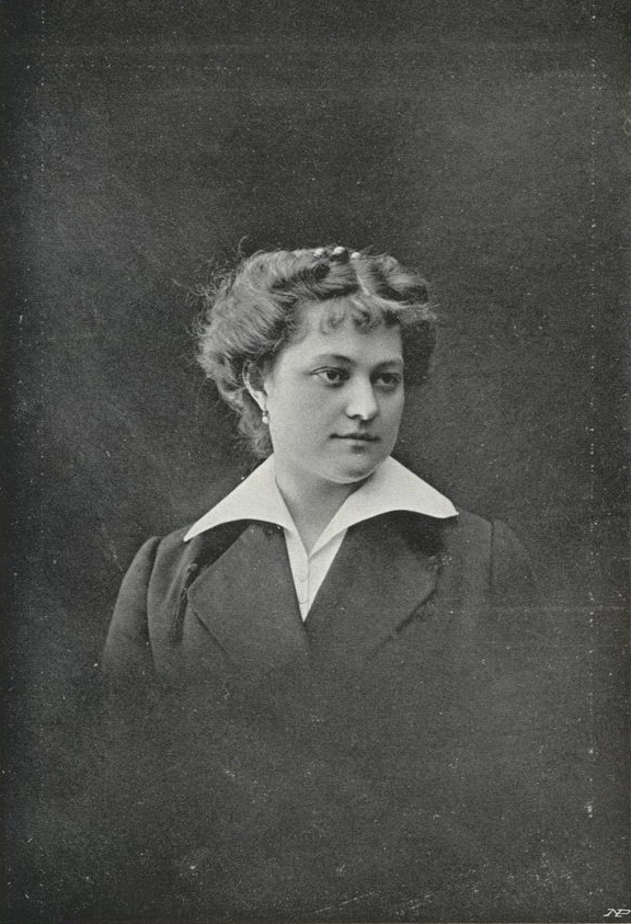 Kherson Alexeevskaya Community of Sisters of Mercy by Russian Red Cross Society at 1914 year (Year Report). Trustee ofCommunity, Baroness A.M. Graevenitz (nee. Strizhevskaya)